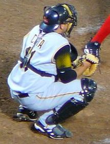 Alfonso Soriano ; move approved by User:Common Good